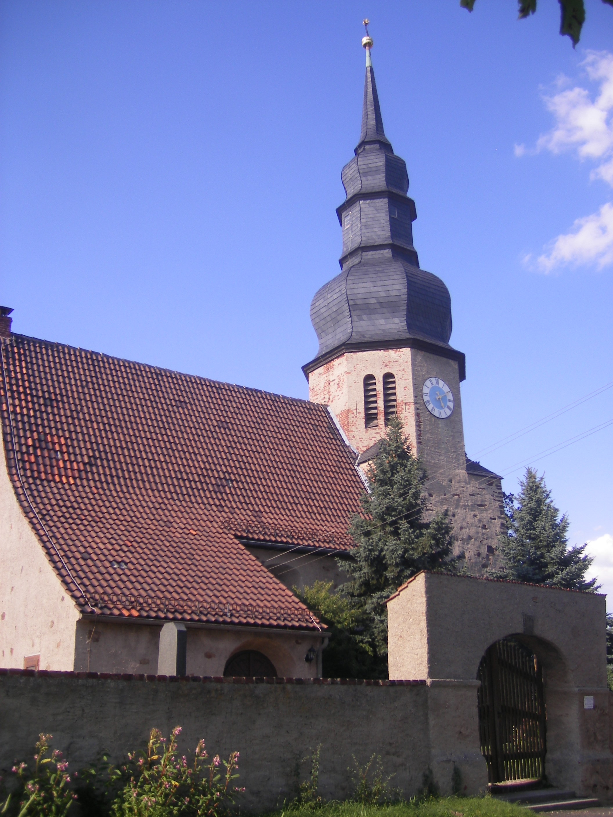 Church in Heukewalde near Gera/Thuringia